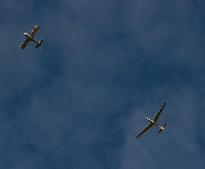 Towing SZD-50 Puchacz glider for airplane